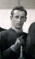 Georg Johansson with the swedish national ice hockey team at the 1920 Summer Olympics in Antwerp, Belgium. The picture is a crop out of a larger team photo taken inside the ice rink Palais de Glace d'Anvers. The ice hockey tournament at the 1920 Summer Olympics took place between April 23 and April 29.